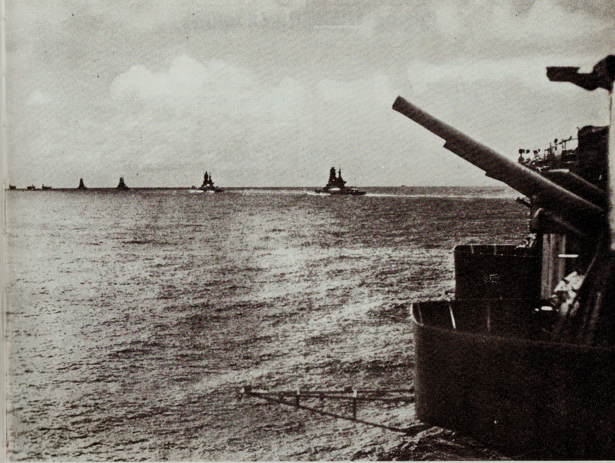 Imperial Japanese Fleet in Indian Ocean raid (april 1942)